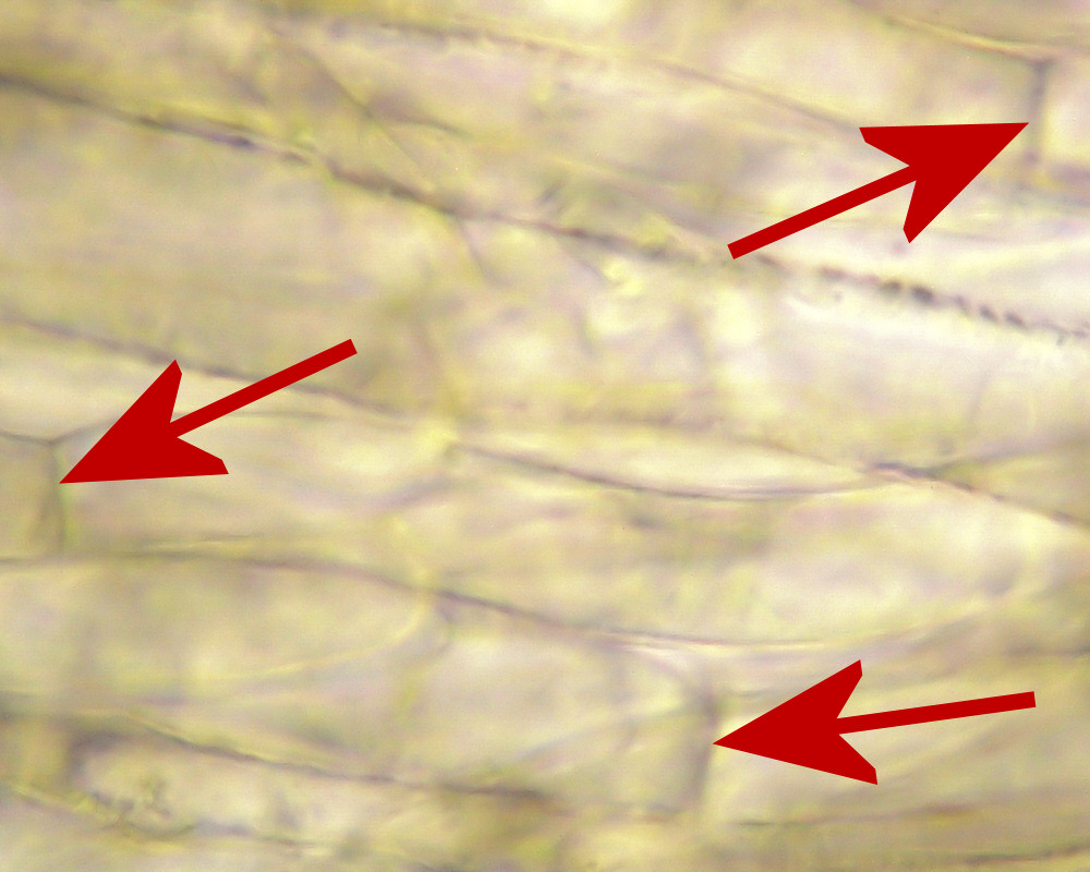 Hyphae with septa